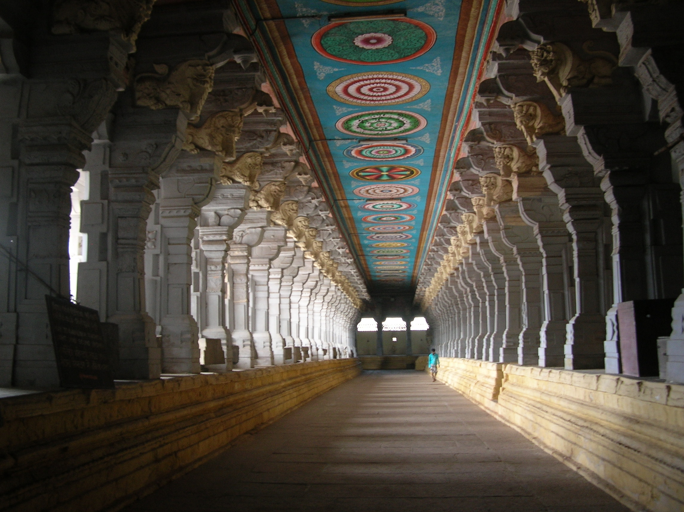 The inside view of Rameawaram temple.